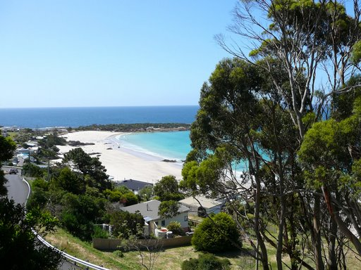 A view from Boat Harbour Beach Lookout over the beach